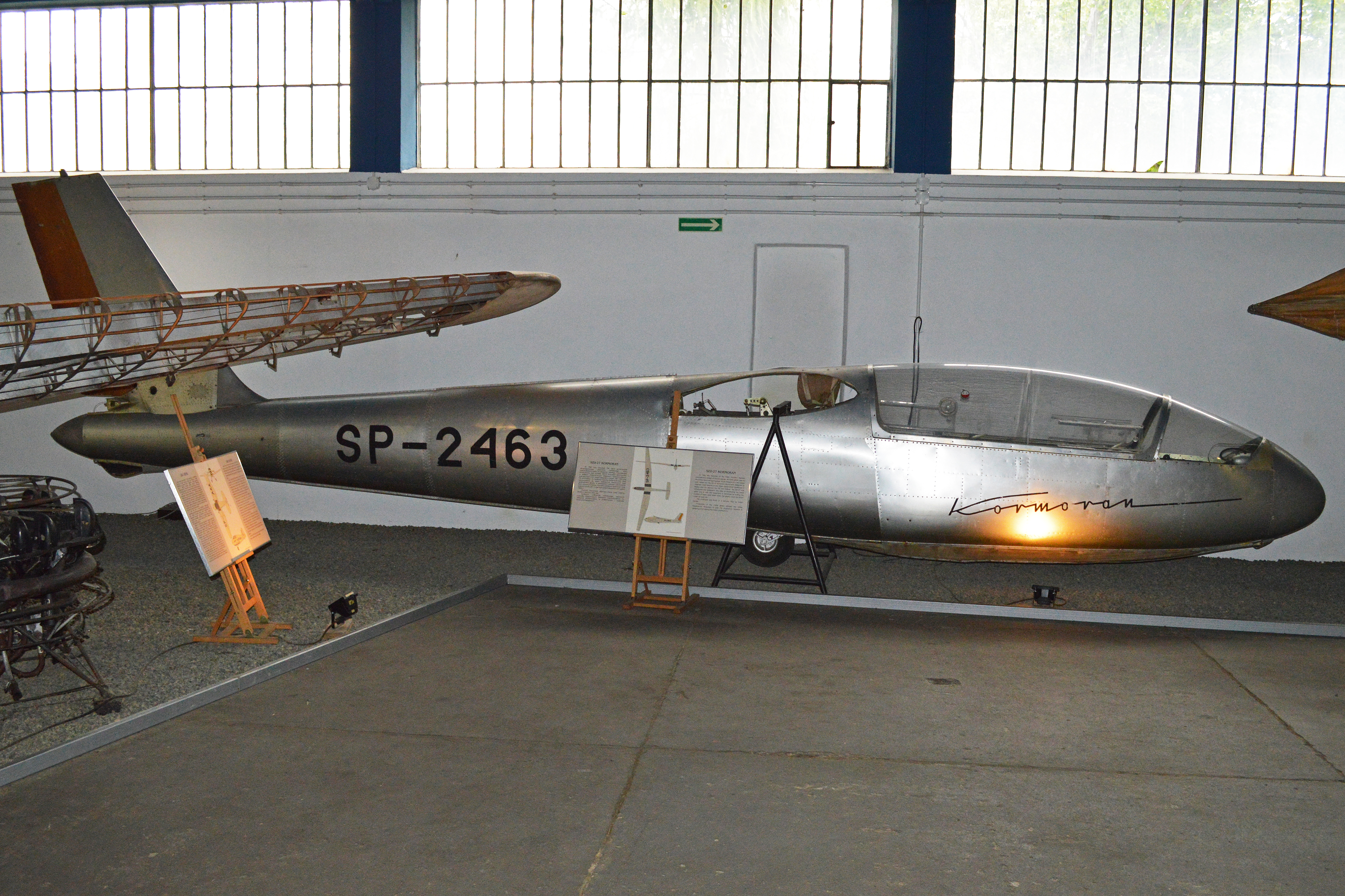 The SZD-27 Kormoran was designed to cater for the large demand from Polish aeroclubs for two-seat training machines, for basic training, advanced training and aerobatics. The SZD-27 was the first and only glider designed by SZD to be built entirely of metal, with light alloy skins, formers, ribs, frames etc., with steel high strength detail parts. The undercarriage comprises a semi-recessed mainwheel with skids under the nose and at the tail. Only two were built which both survive. This one is now on display in a building full of unrestored relics at the Muzeum Lotnictwa Polskiego. Krakow, Poland. 23-8-2013.